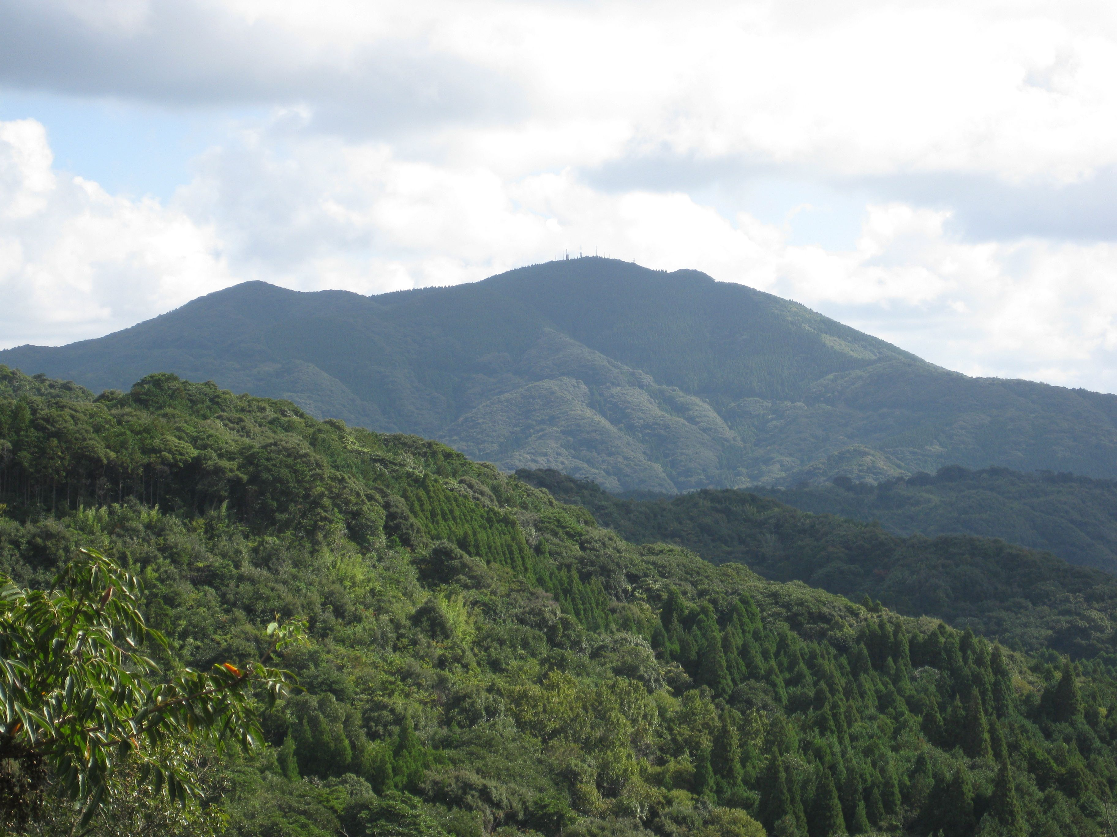 Mt. Kuratayama in Kagoshima, Japan